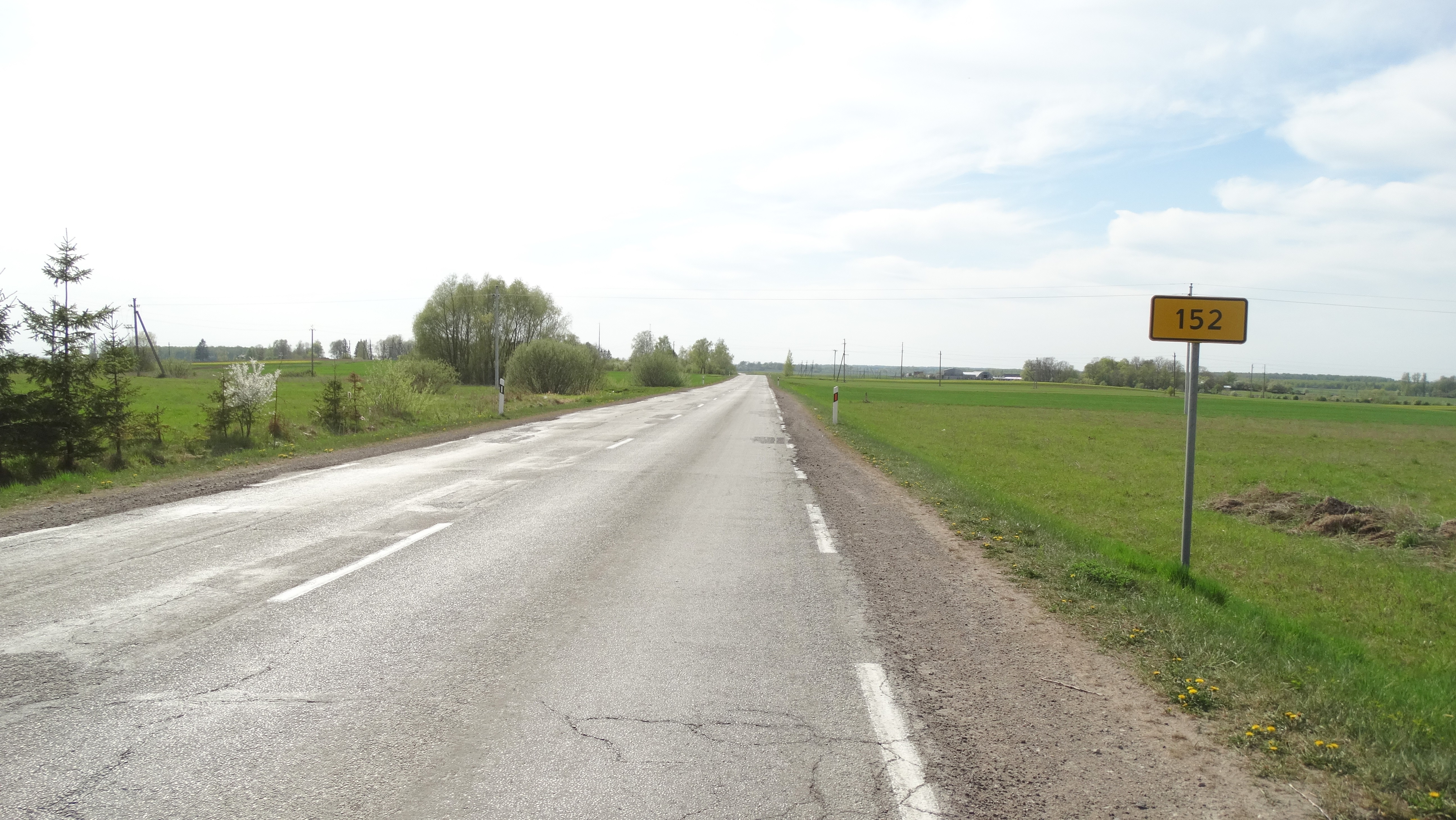 Road 152 Linkuva, Pakruojis District, Lithuania